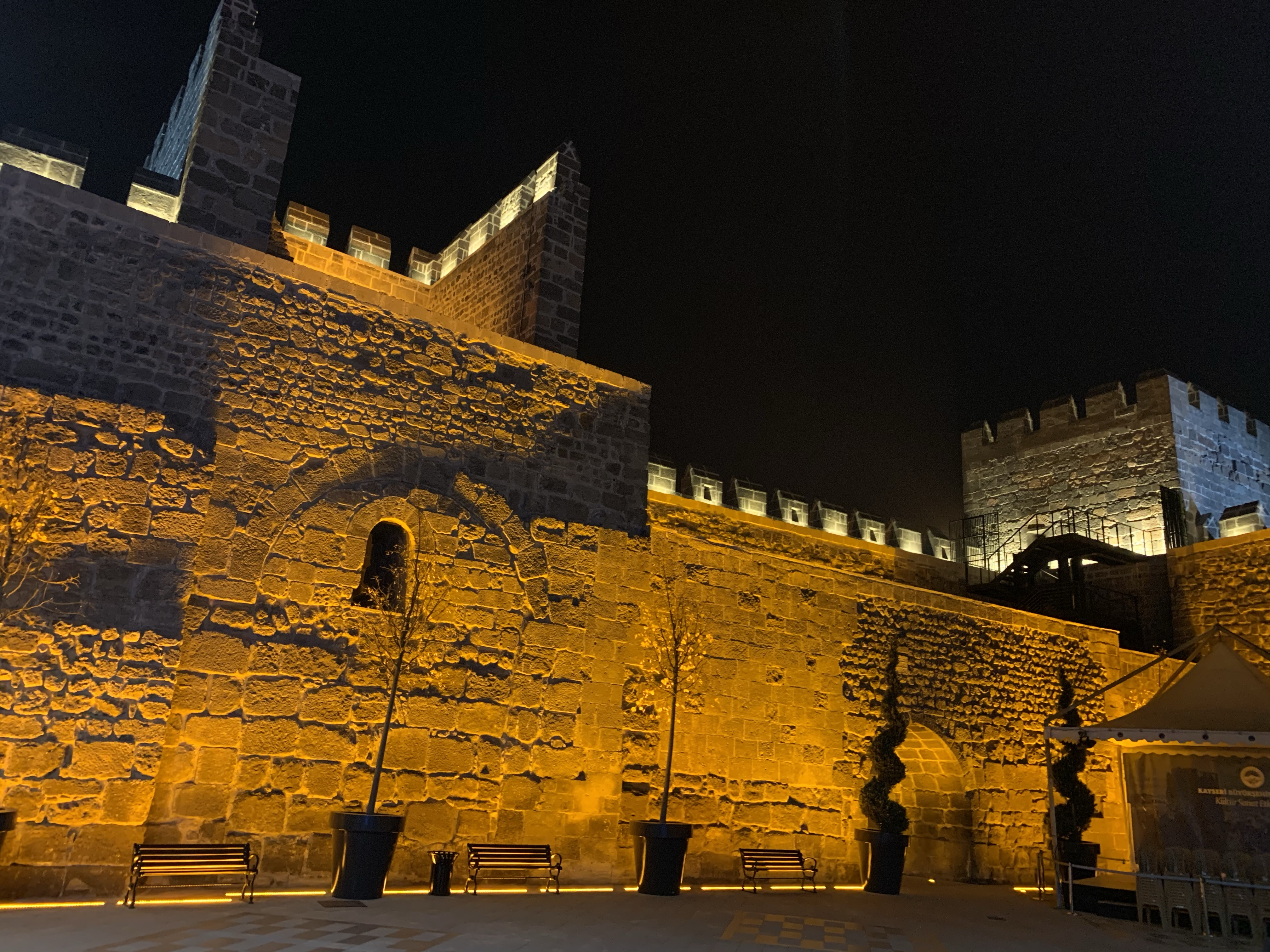 In the beautiful city of Kayseri, at the heart of Anotolia, stands a castle right from the roman empire time